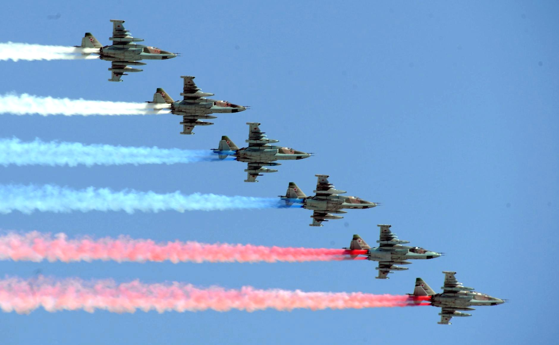 Military parade on Red Square 2016-05-09